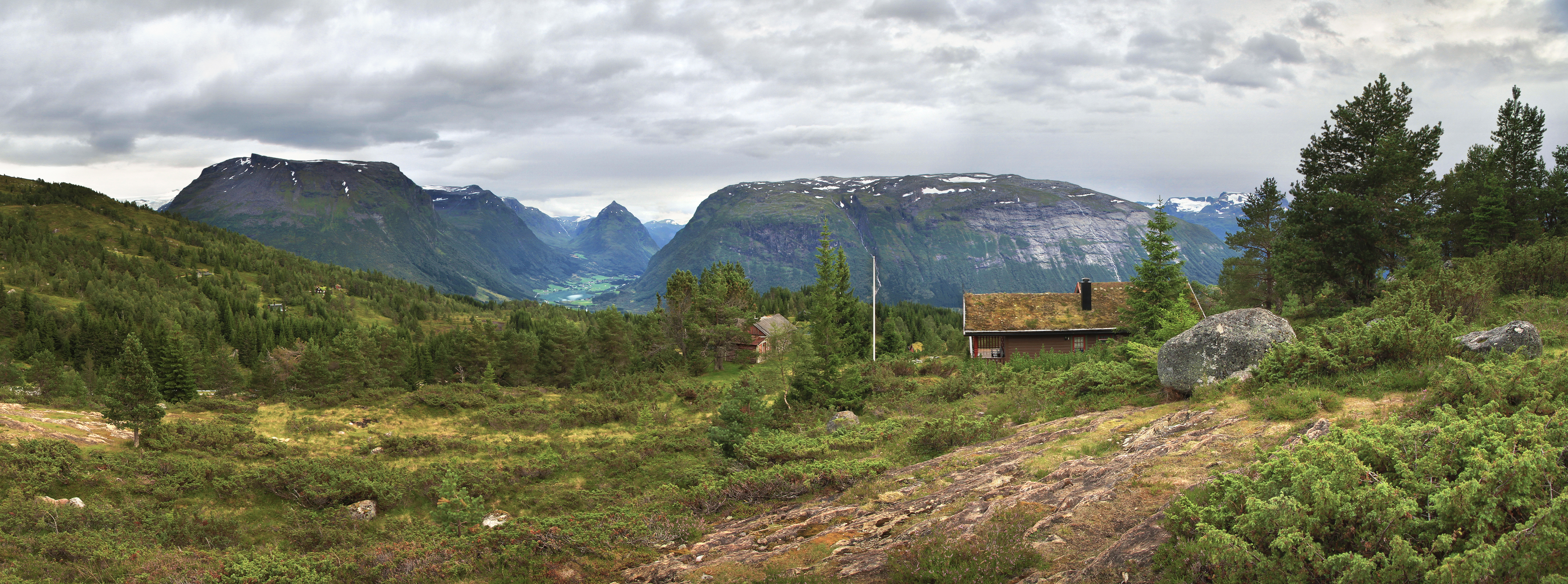 A view from Nuken, Utvikfjellet towards Votedalen in Gloppen municipality, Sogn og Fjordane, Norway in 2011 August.